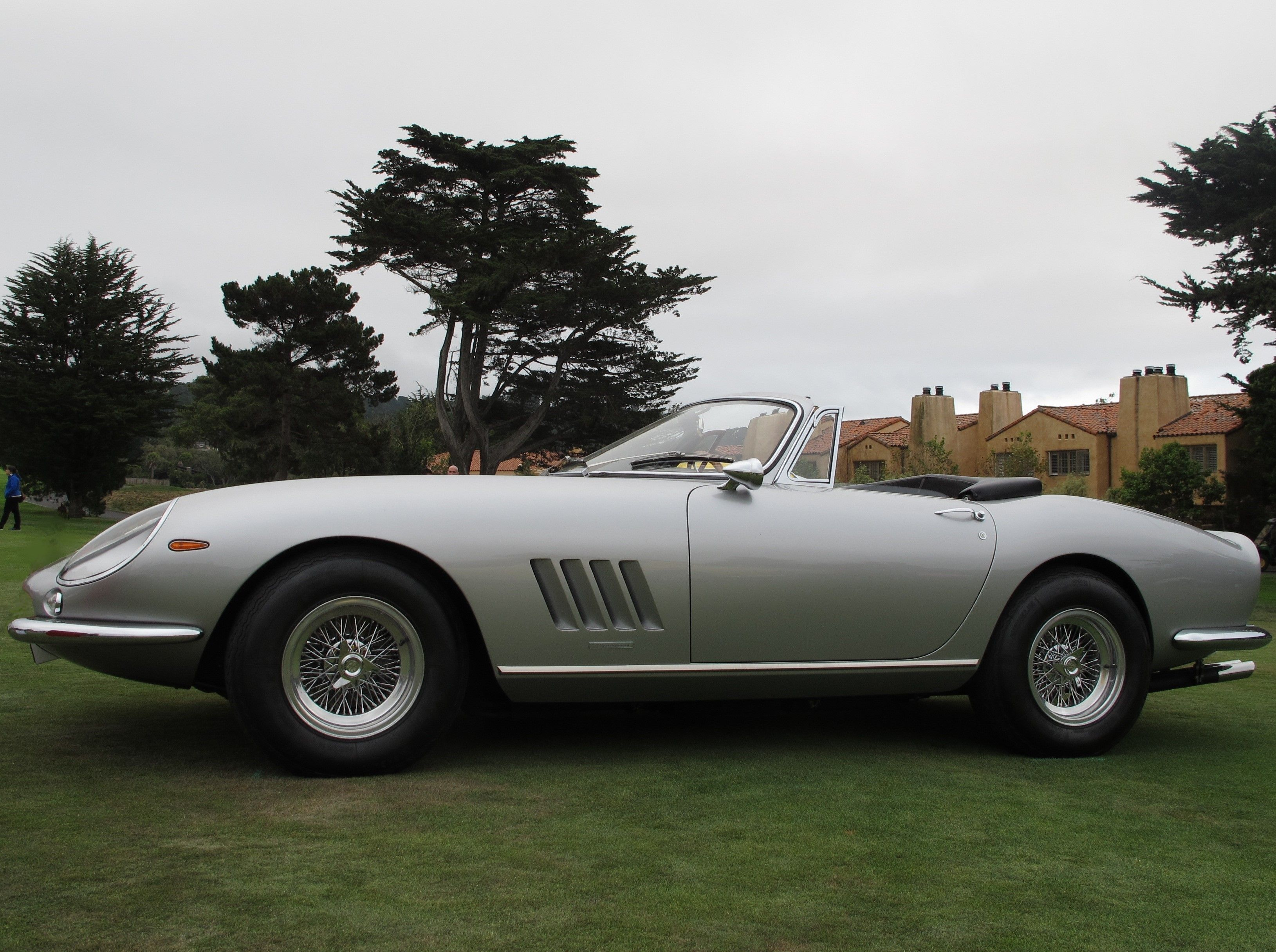 A Ferrari 275 GTB4 NART Spyder on display at the Casa Ferrari 70th anniversary exhibit in Pebble Beach, August 2017. This is s/n 10749.[1]